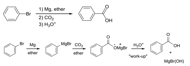 Figure 6: the synthesis of the corresponding Grignard reagent of bromobenzene and the further reaction with carbon dioxide to form benzoic acid.